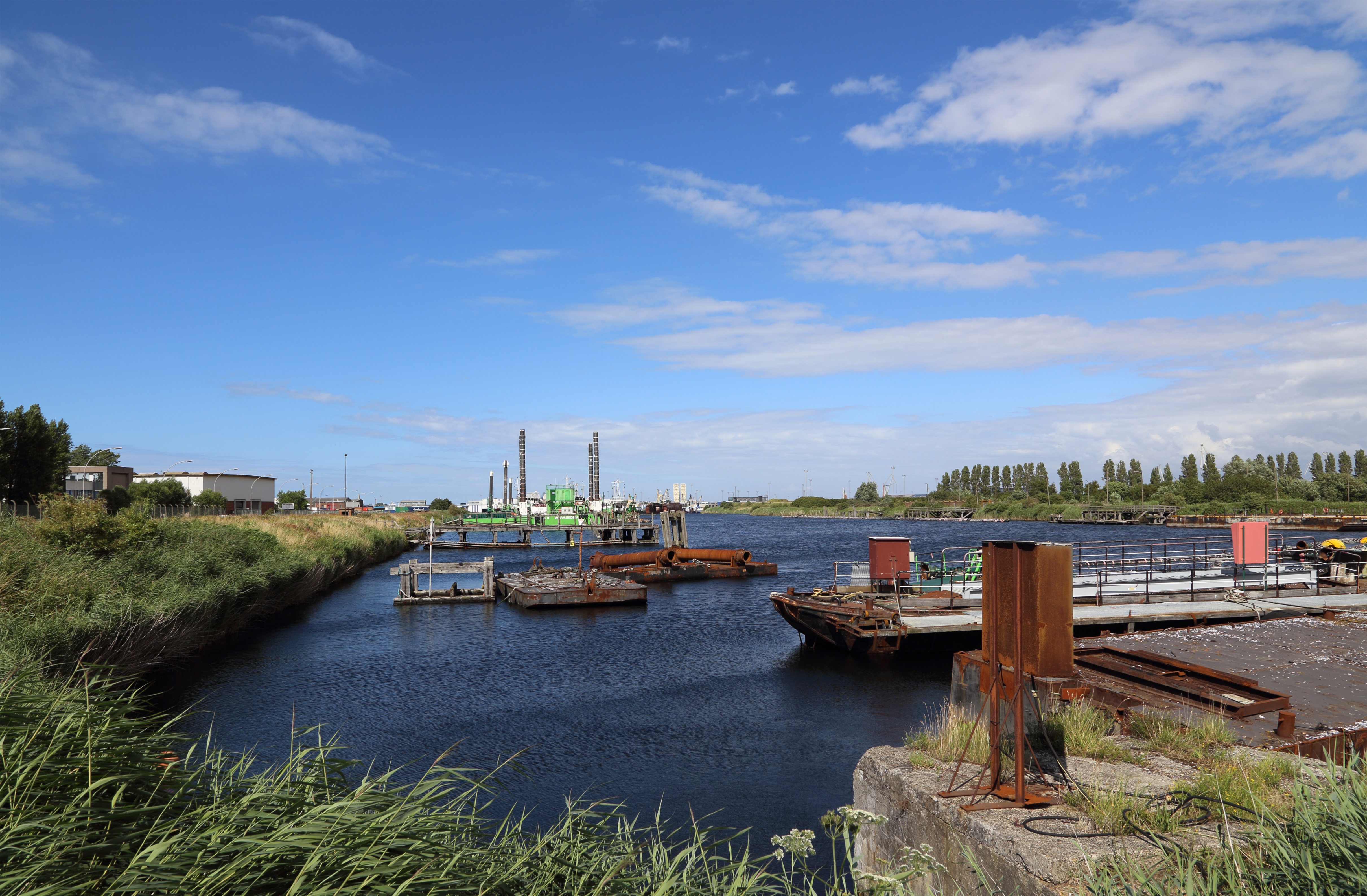 Zeebrugge (Bruges, Belgium): the Old Ferry Dock